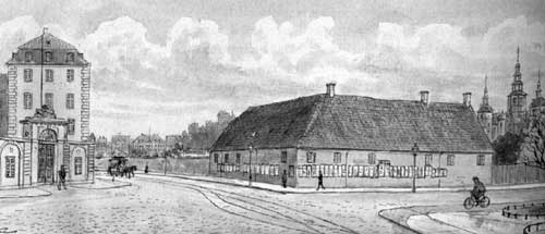 Sølvgade at the intersection with *ster Voldgade in Copenhagen, Denmark